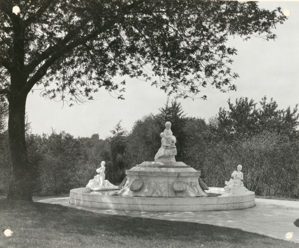 Black and white photo of memorial fountain dedicated to Annie Stewart